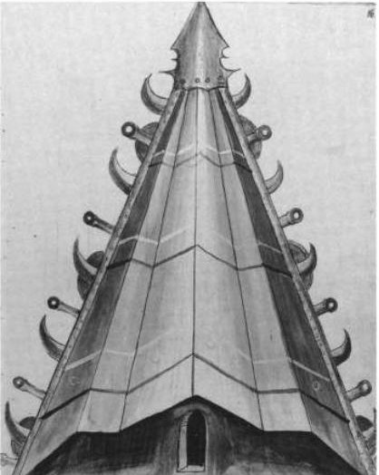 A giant war tank invented by Alexander the Great from Conrad Kyeser's "Bellifortis"